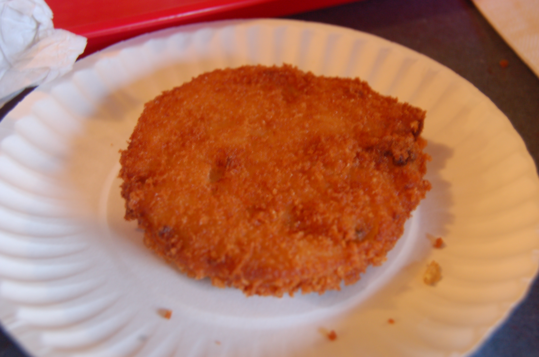 Made from the runoff juices of the clam. Starchy, but tasty.